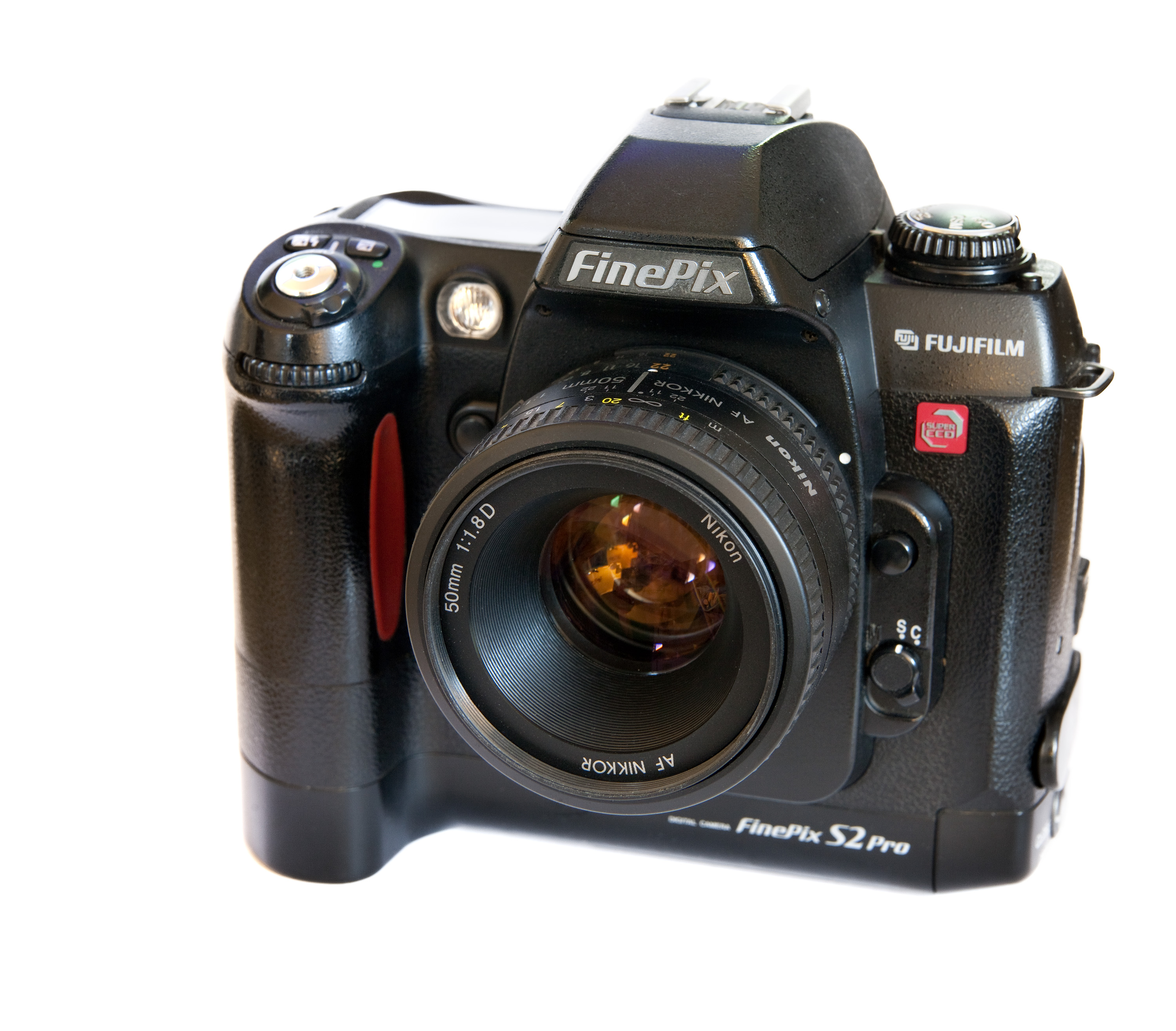 A Fuji S2, with a Nikon 50mm f/1.8D.